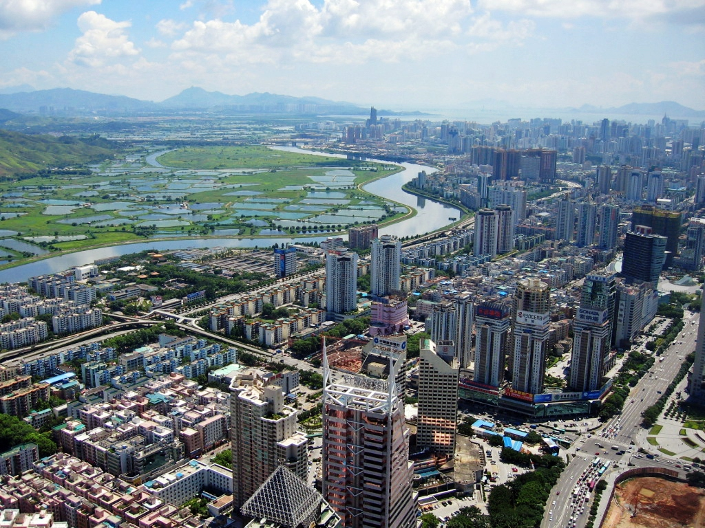 Picture of the western side of the CBD of Shenzhen, China, looking southwest. The Shenzhen River and rice fields can be seen in the background.